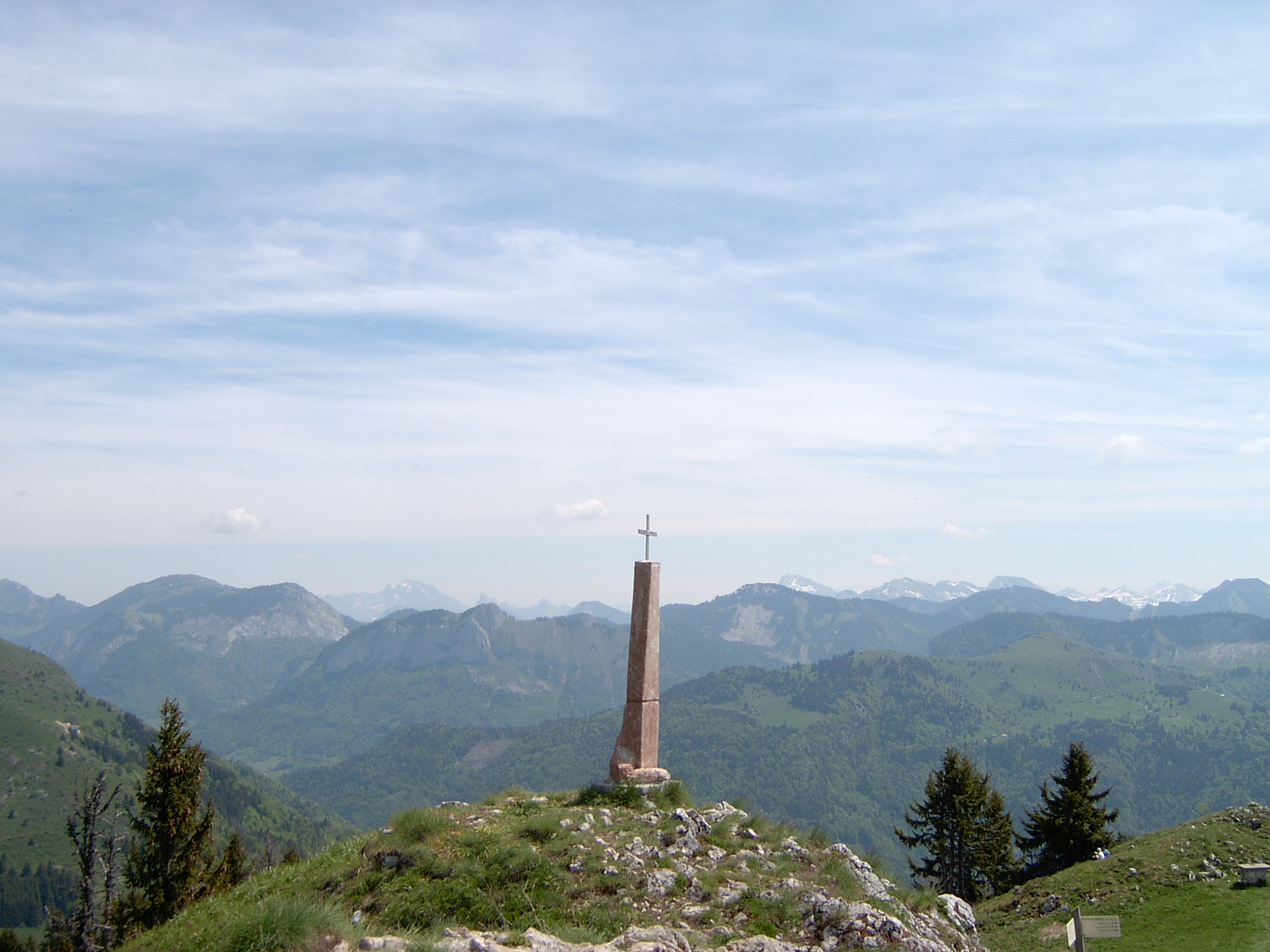 View from top of Pointe de Miribel